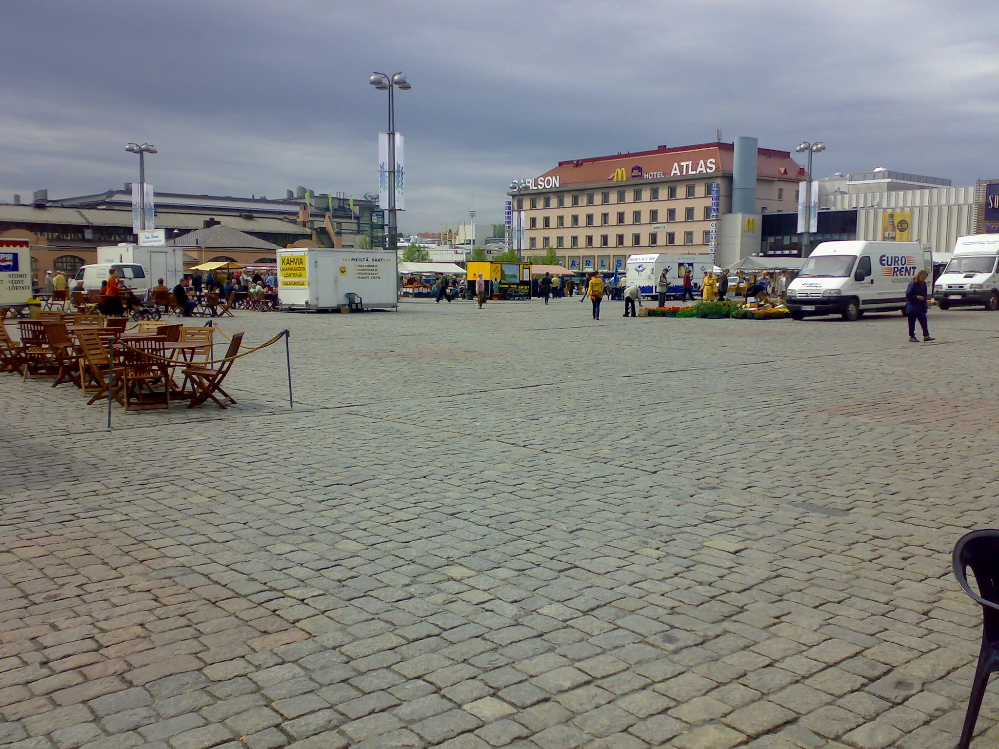 Kuopio square